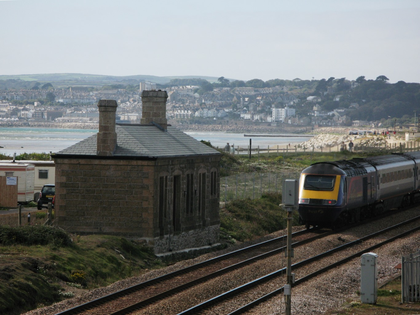 The disused station at Marazion, Cornwall, United Kingdom which is situated on the shore of Mounts Bay with the town of Penzance in the background. The train is a First Great Western service from London Paddington station formed with power car 43189 in the rear; the coaches had recently been transferred from the Midland Main Line and still carried that franchise's colours.